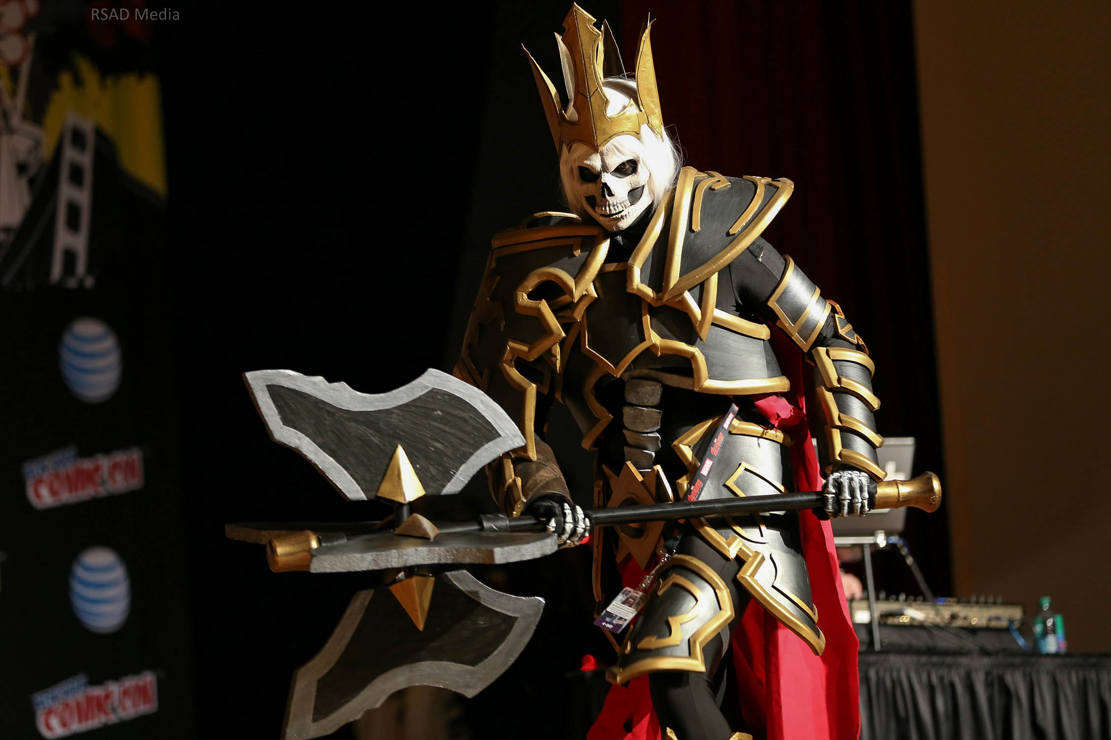 New York Comic Con 2015 - Leoric Cosplay at the 2015 New York Comic Con (NYCC 2015).